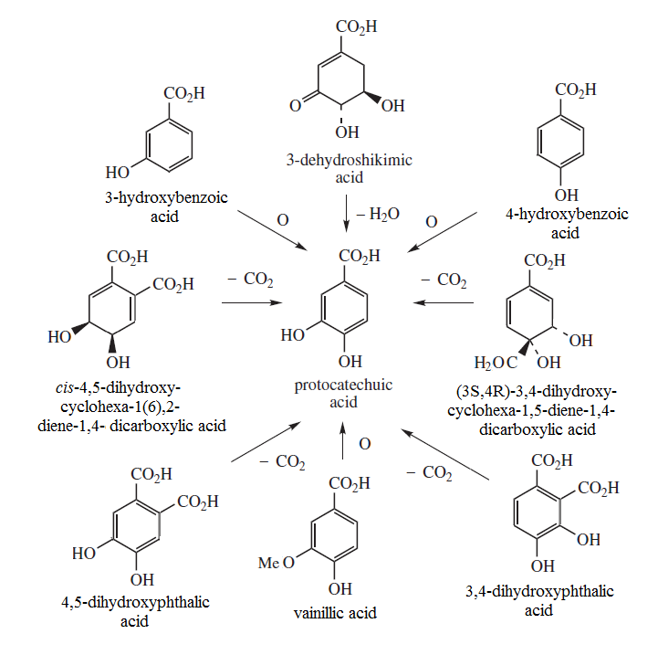 Protocatechuic biosynthesis scheme